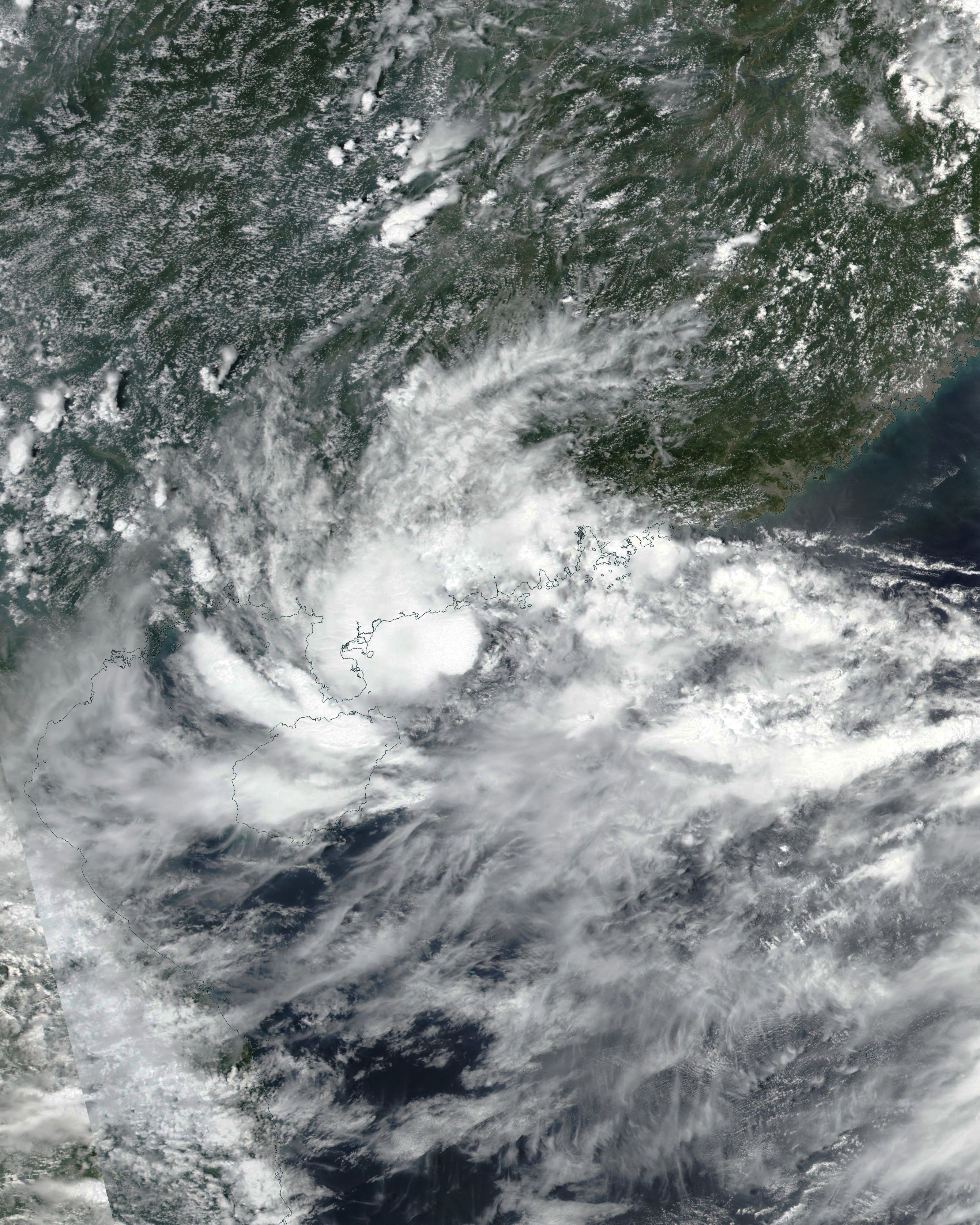 Tropical Depression 20W on August 12, 2018